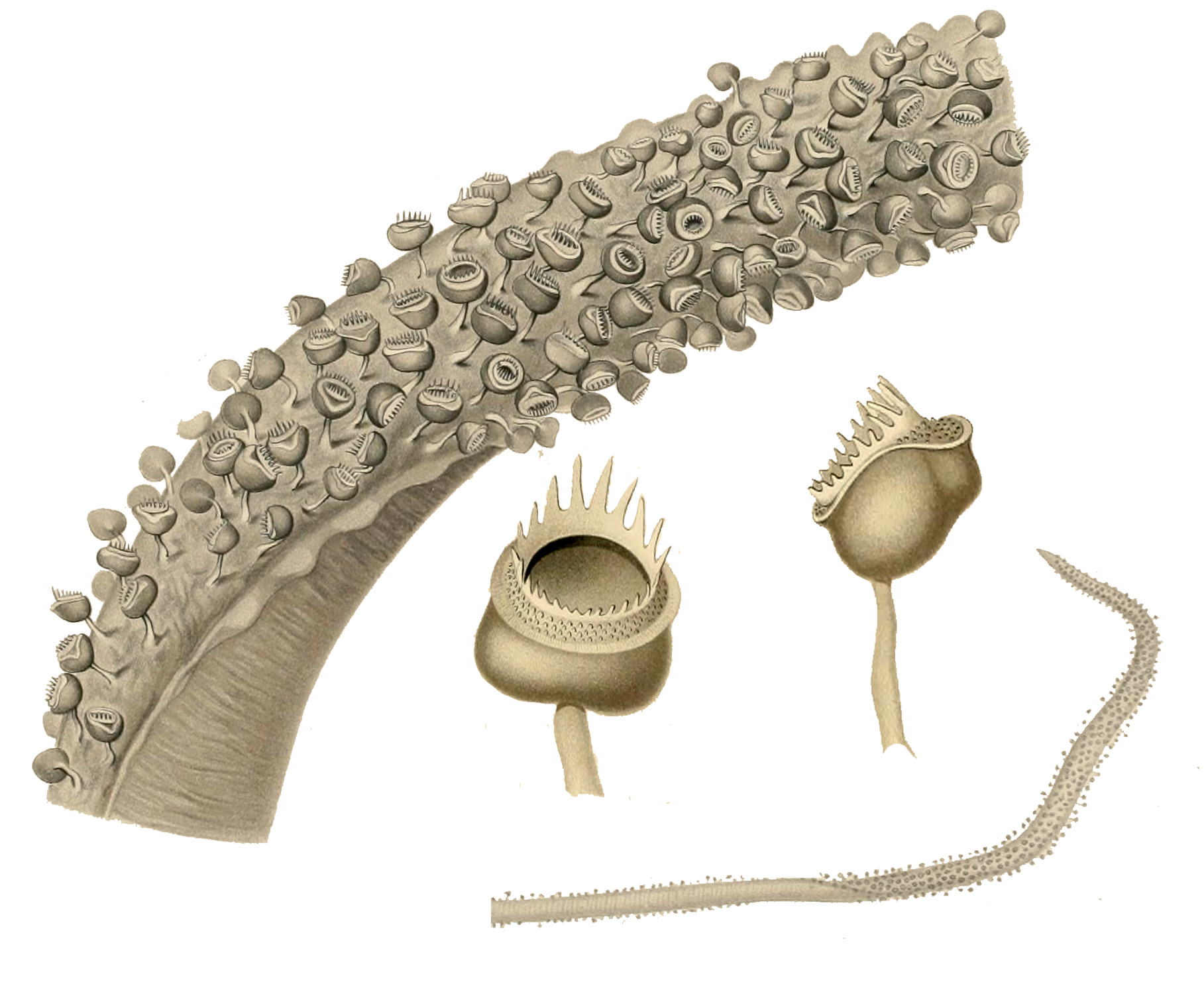 Ventouse calmar Mastigoteuthis